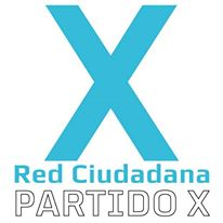 Logo Partido X